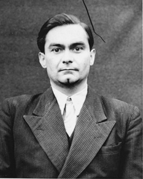 Portrait of Hans Wolfgang Romberg as a defendant in the Medical Case Trial at Nuremberg.